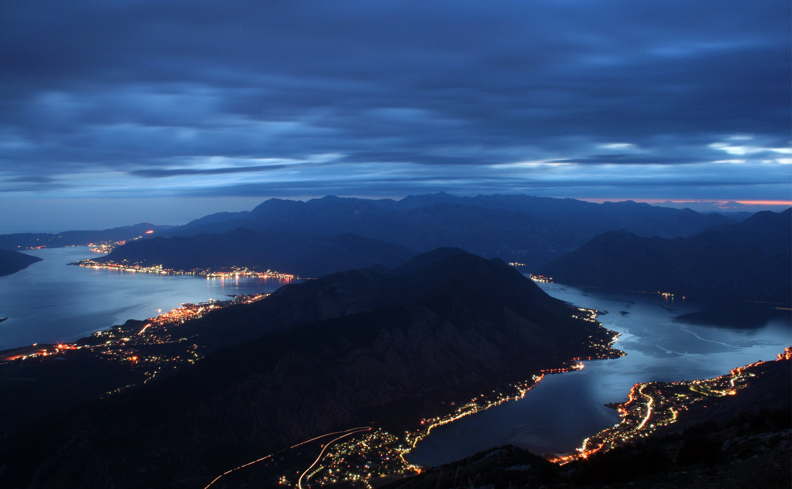 Бока Которска ноћу